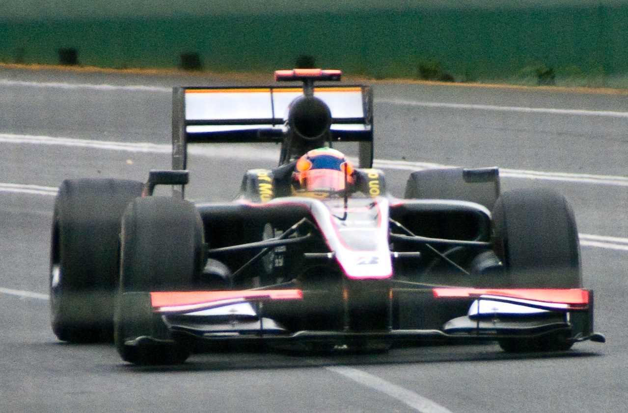 Karun Chandhok driving for Hispania Racing at the 2010 Australian Grand Prix.